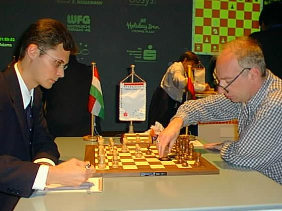 Peter Leko - Robert Huebner, Dortmunder Schachtage 2000, Photographer Gerhard Hund.